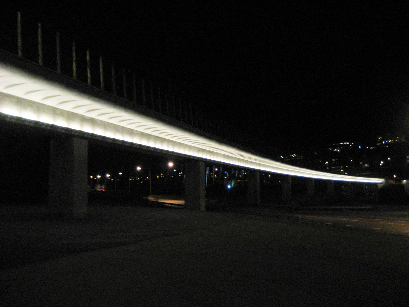 An illuminated railway bridge across the E4 highway in Örnsköldsvik, Sweden